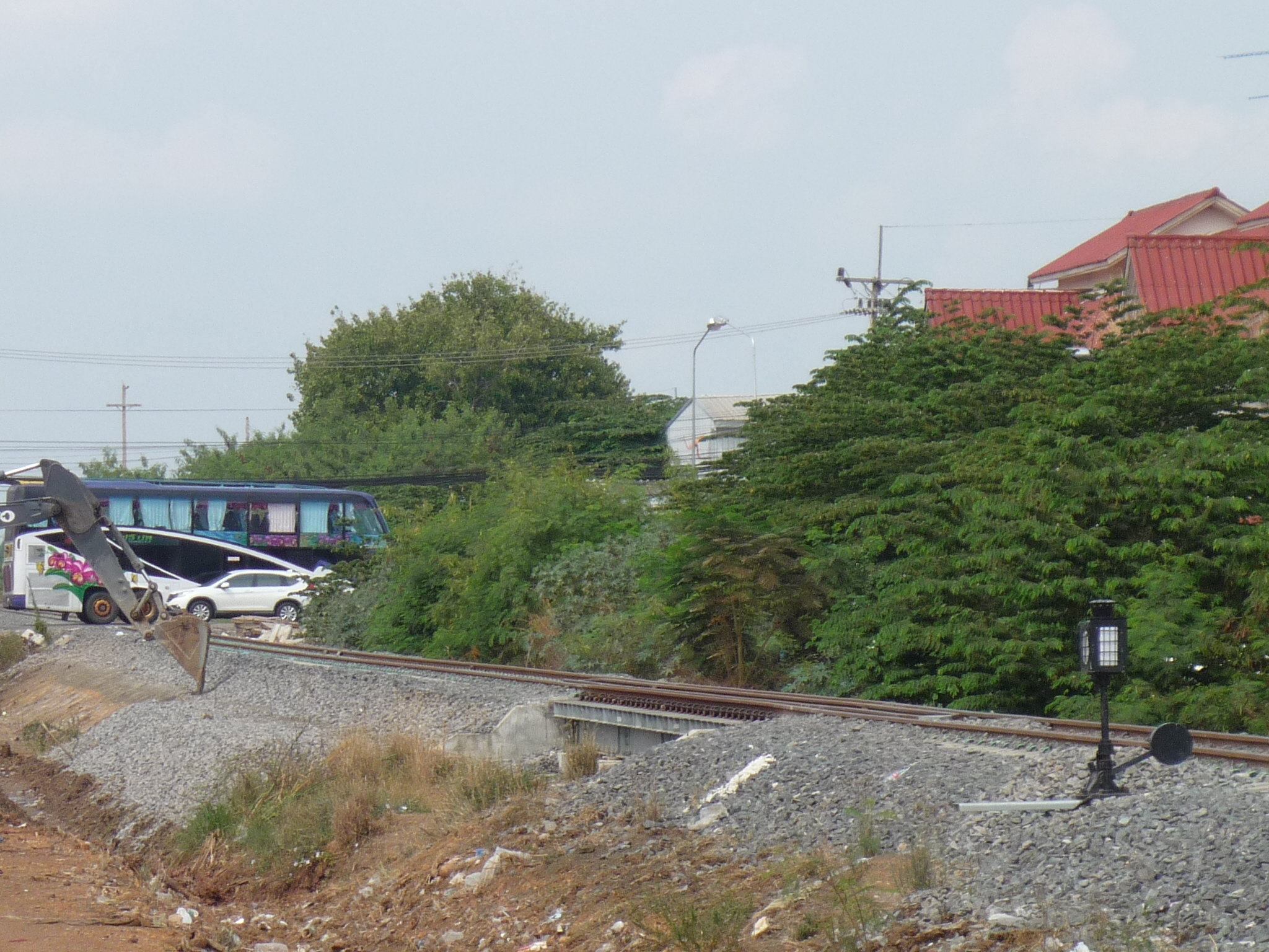 New Railway alignement with passing loop at Khlong Luek, Thailand. With an excavator standing next to it.